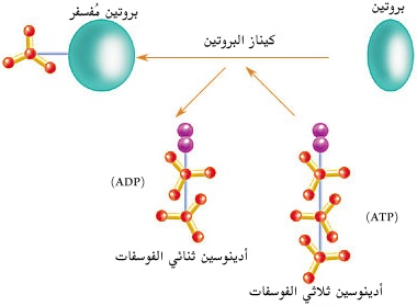 General scheme of kinase function